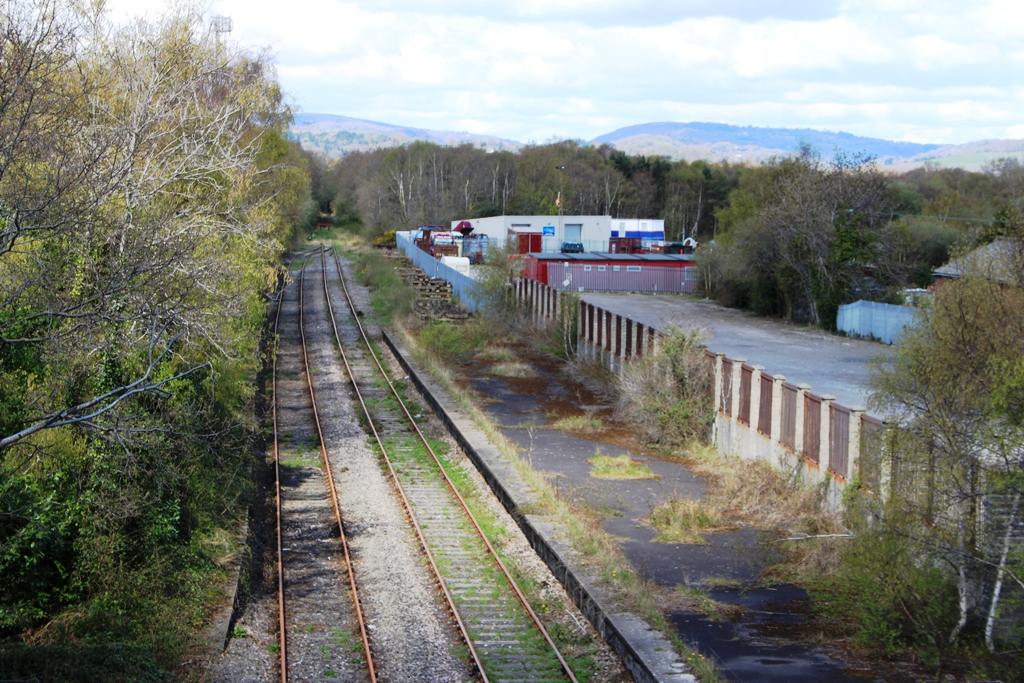 Heathfield station in Devon. Passenger services between Newton Abbot and Moretonhampstead were withdrawn in 1959 but the paltforms remain; the line from Newton Abbot is retained for freight traffic but beyond this point has been lifted.